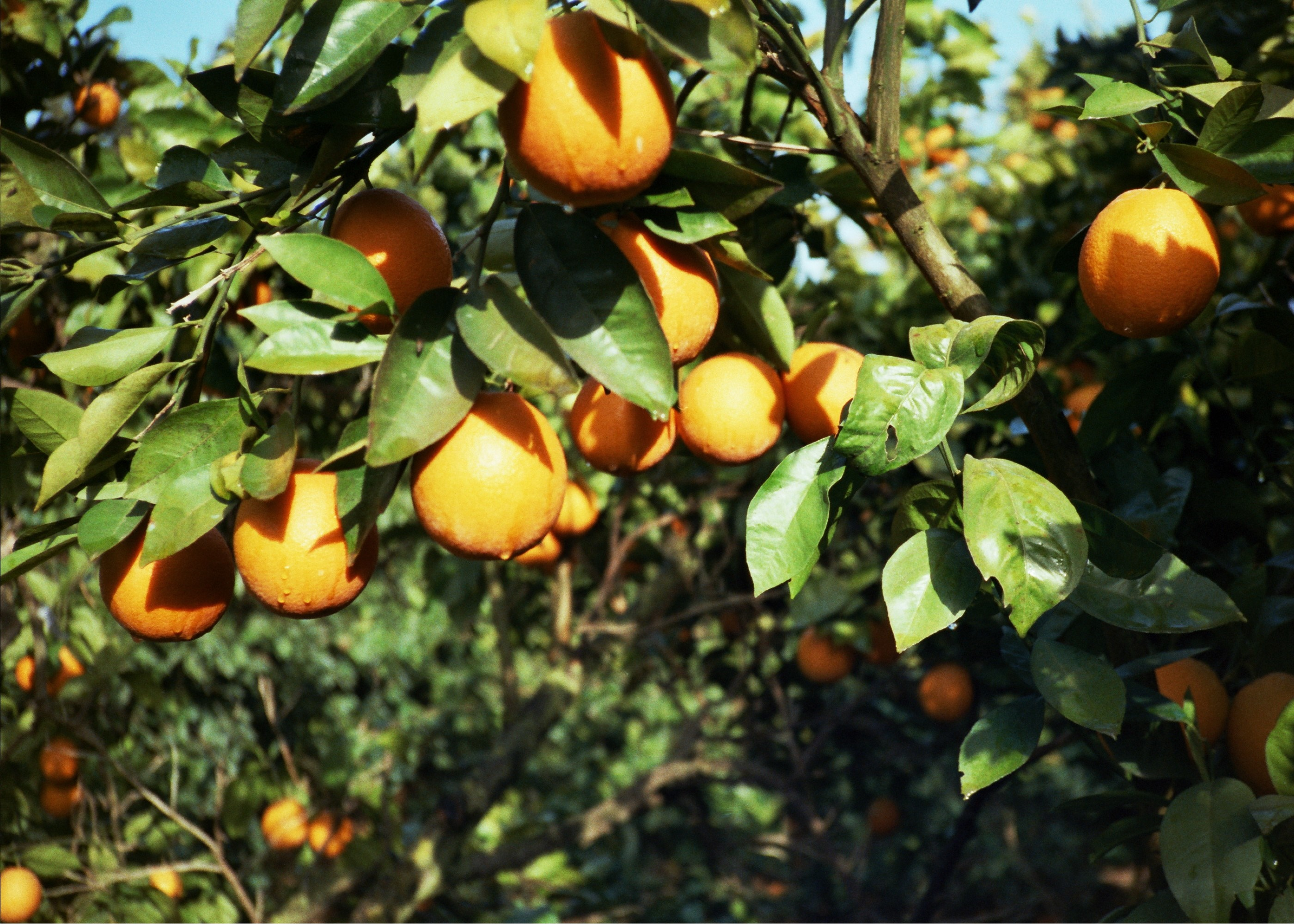 The Orange pardez at Kibbutz Ein Hahoresh , central Israel .